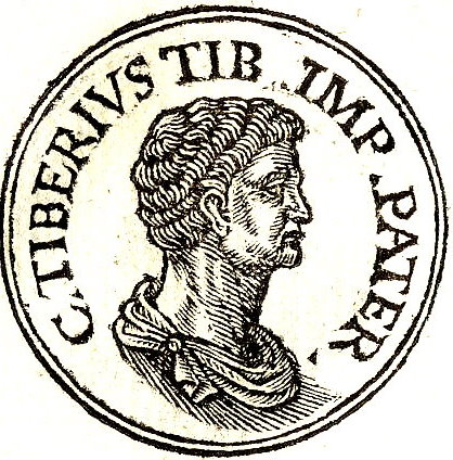 Tiberius Claudius Nero (ca. 85-33 BC) was a member of the Claudian Family of ancient Rome. He was a descendant of the original Tiberius Claudius Nero a consul, son of Appius Claudius Caecus the censor.